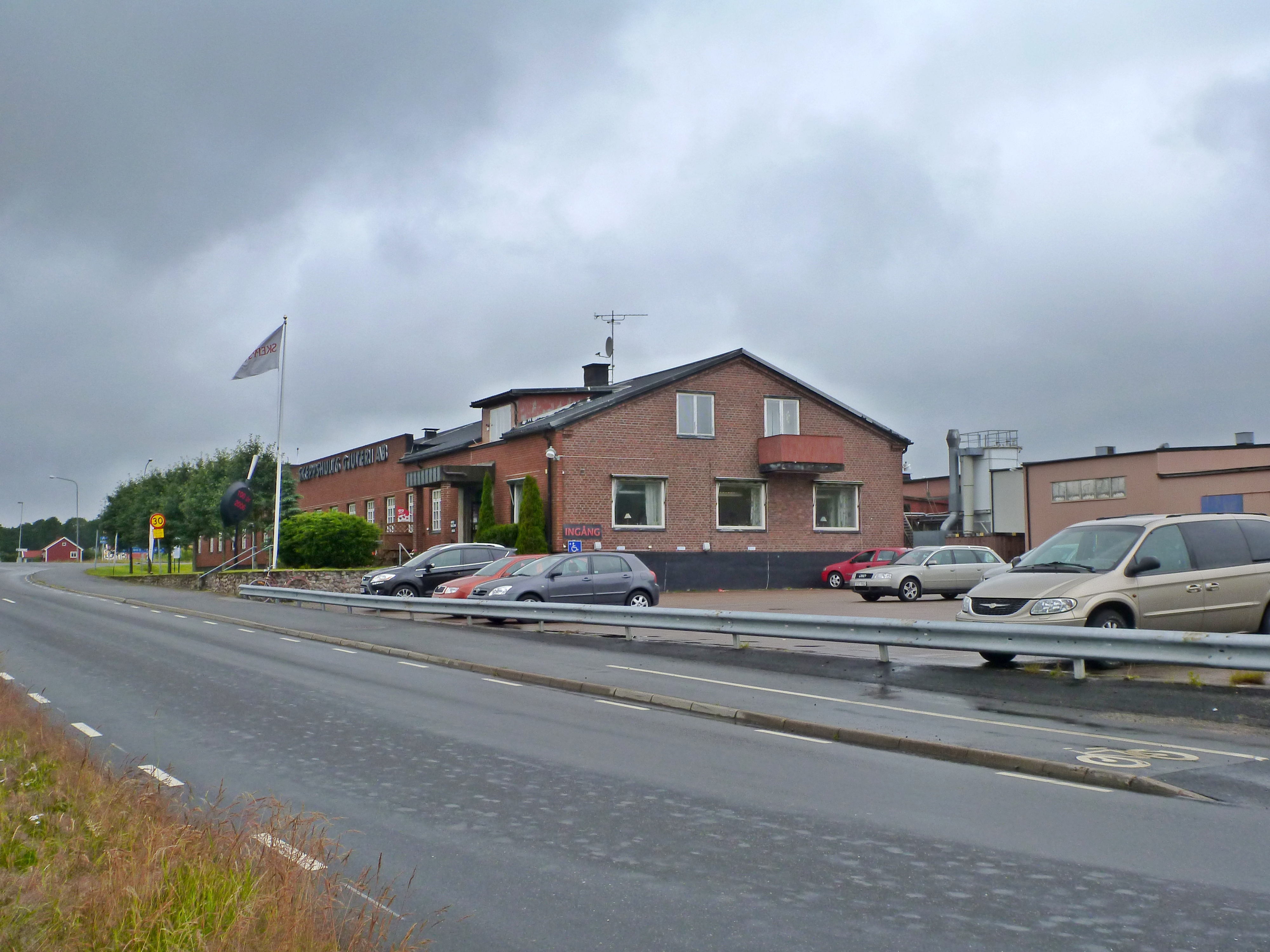 Salesroom from outside and factory of Skeppshults Gjuteri AB